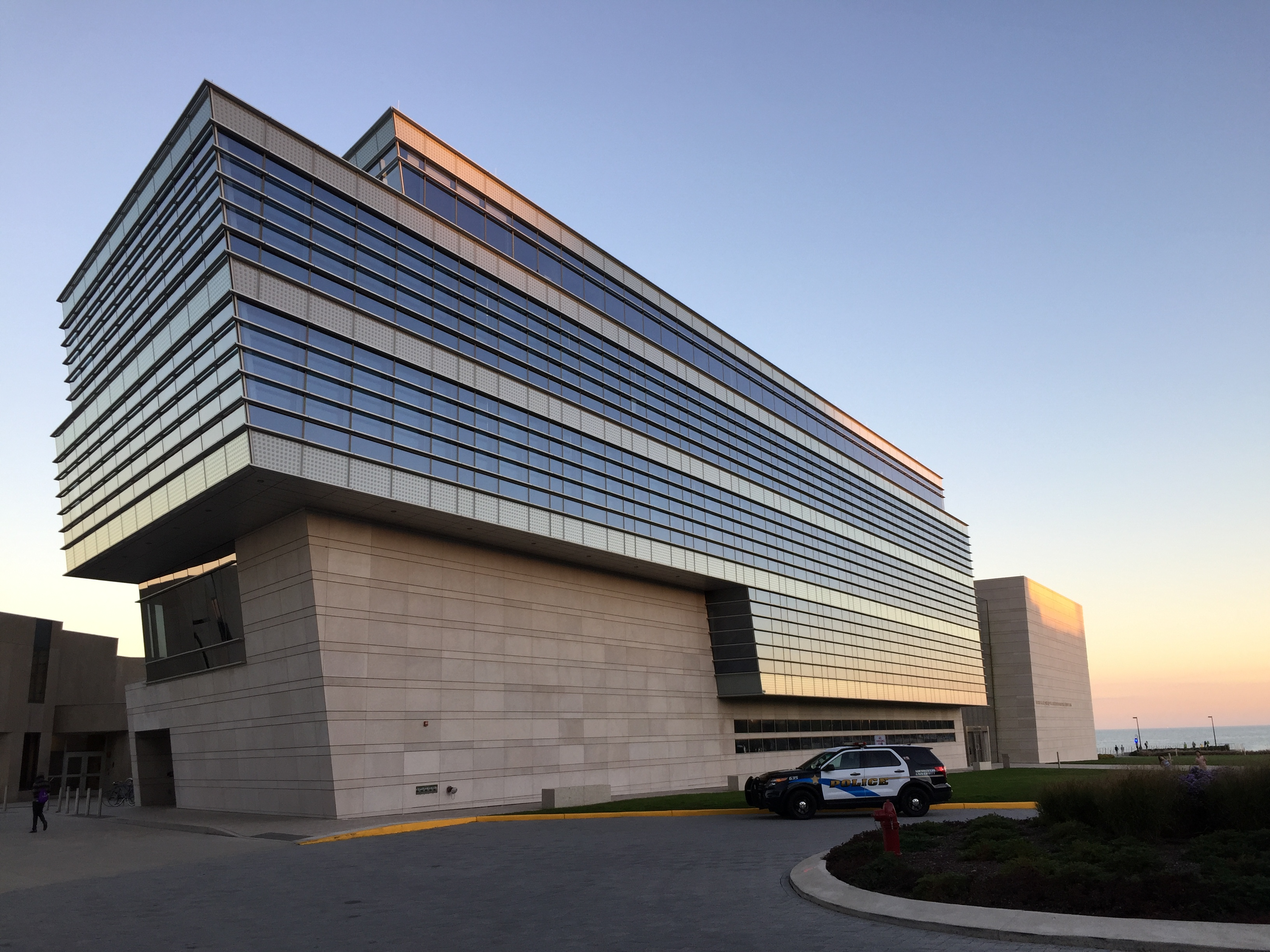 Patrick G. and Shirley W. Ryan Center for the Musical Arts, Northwestern University